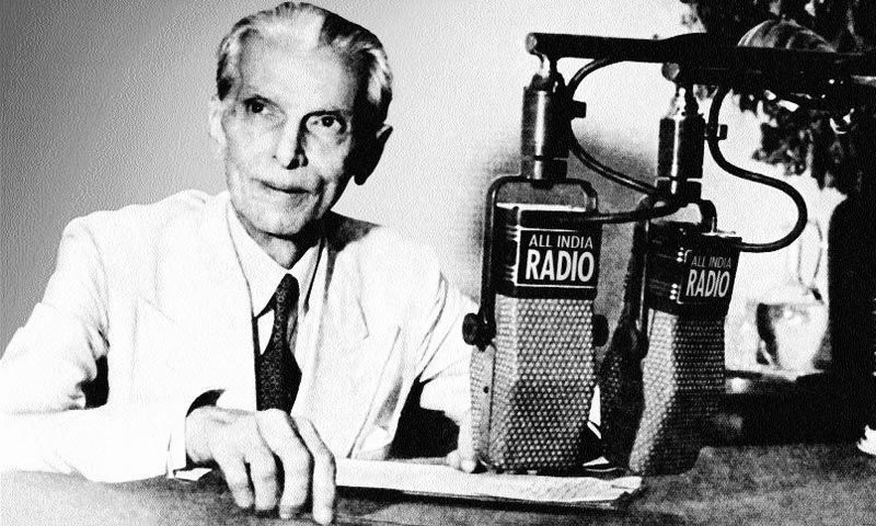 Muhammad Ali Jinnah announces the creation of Pakistan over All India Radio, June 3, 1947 (downloaded May 2004)